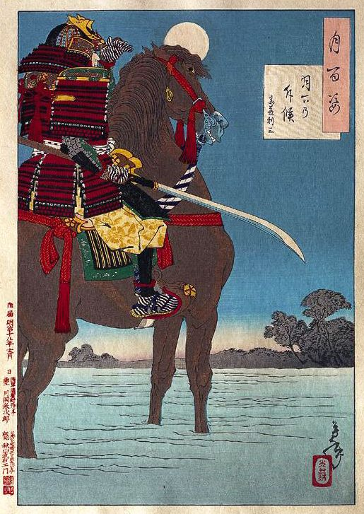 Moonlight Patrol (Gekka no sekko)